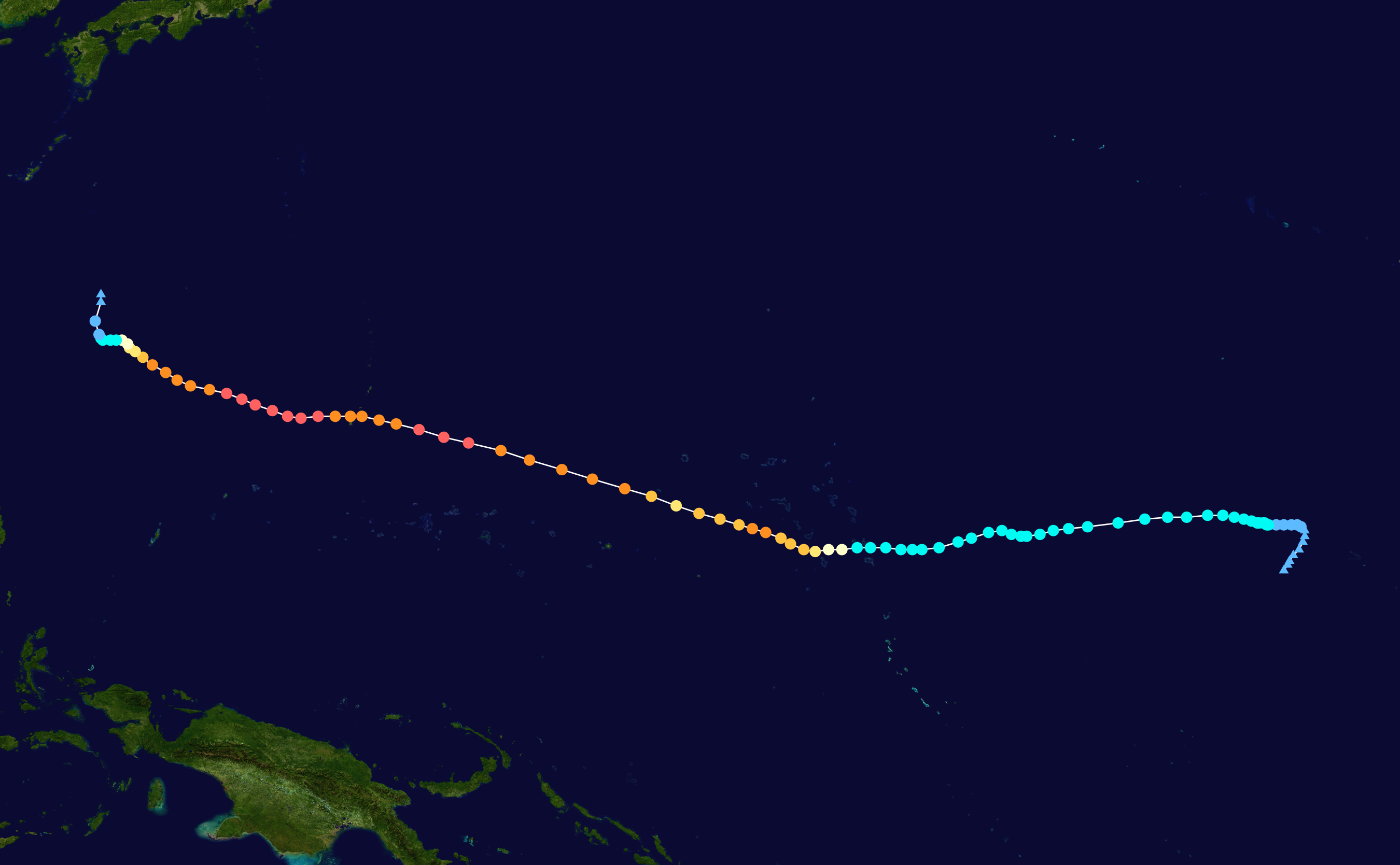 Typhoon Paka (1997) track. Uses the color scheme from the Saffir-Simpson Hurricane Scale.